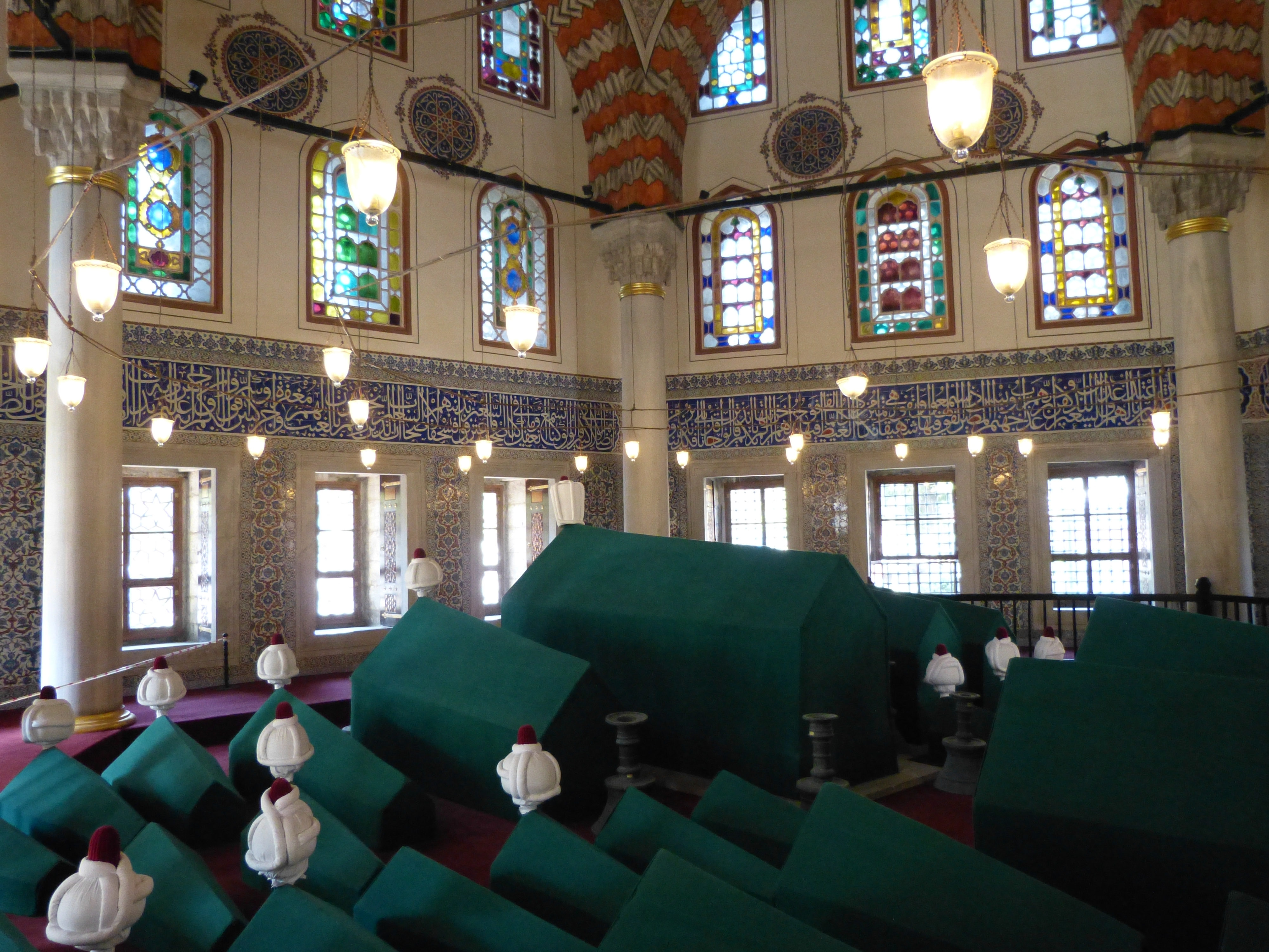 Türbe (Tomb) of Sultan Murad III